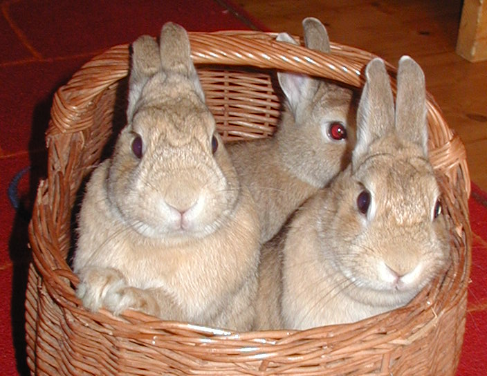 Three rabbits in a basket. Picture taken and uploaded by Kessa Ligerro.